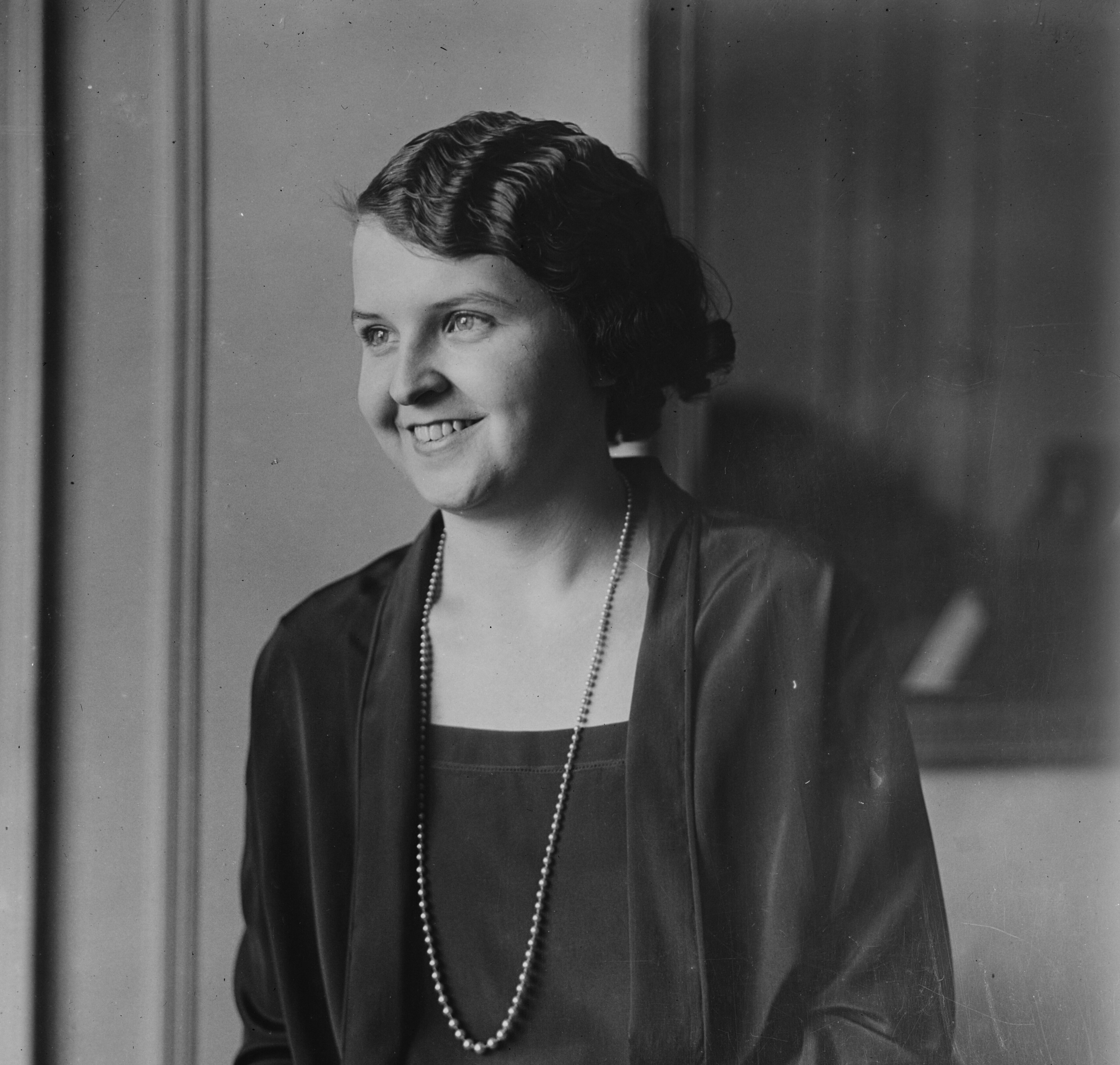 Marion Talley (1906 - 1983), opera singer and actress.